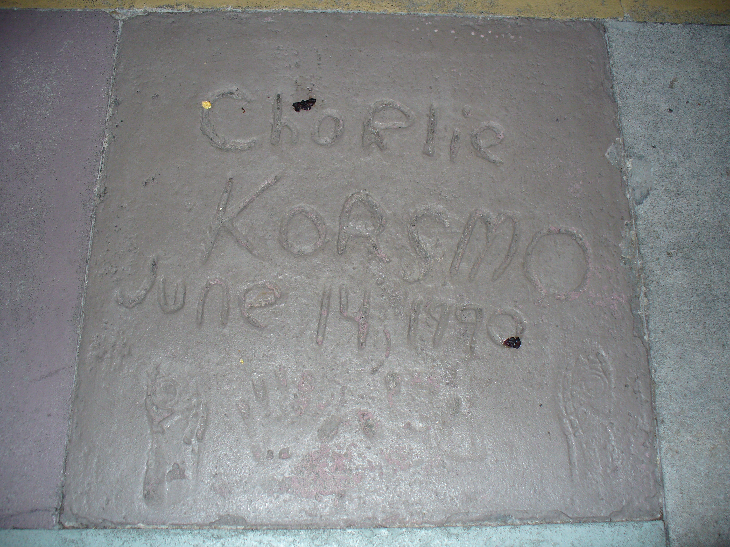 I am the originator of this photo. I hold the copyright. I release it to the public domain. This photo depicts the handprints of Charlie Korsmo in front of The Great Movie Ride at Walt Disney World's Disney's Hollywood Studios theme park.